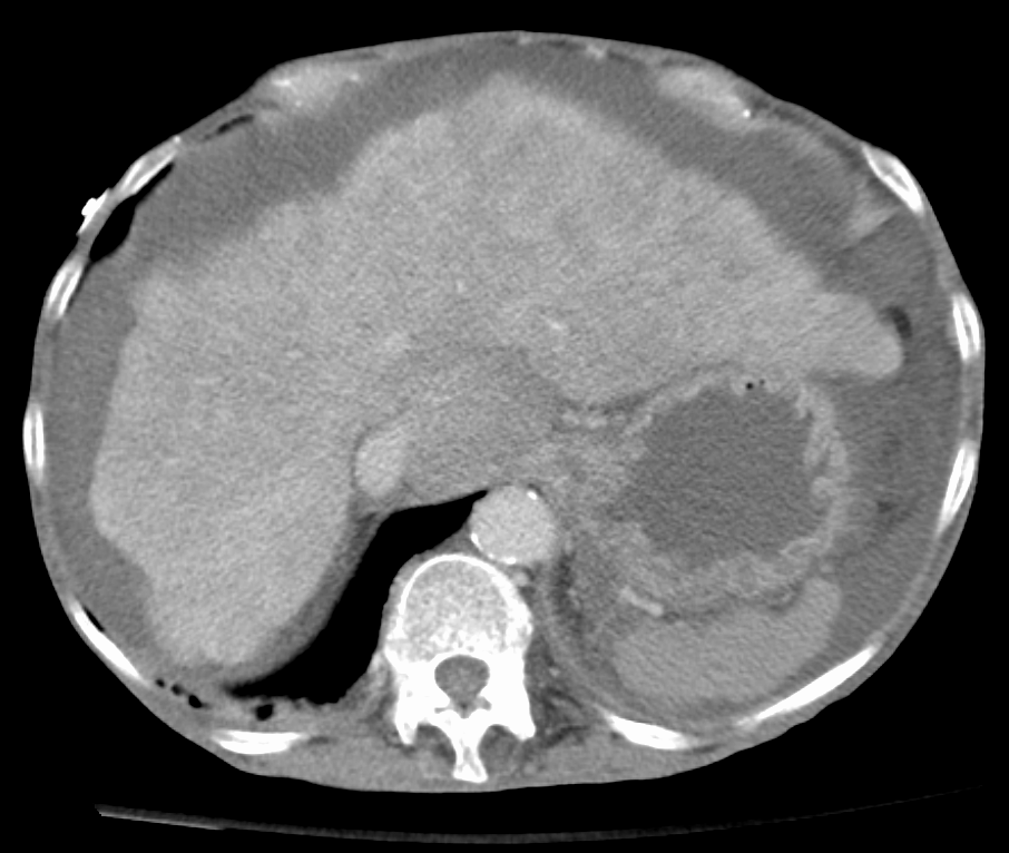 Liver cirrhosis with ascites